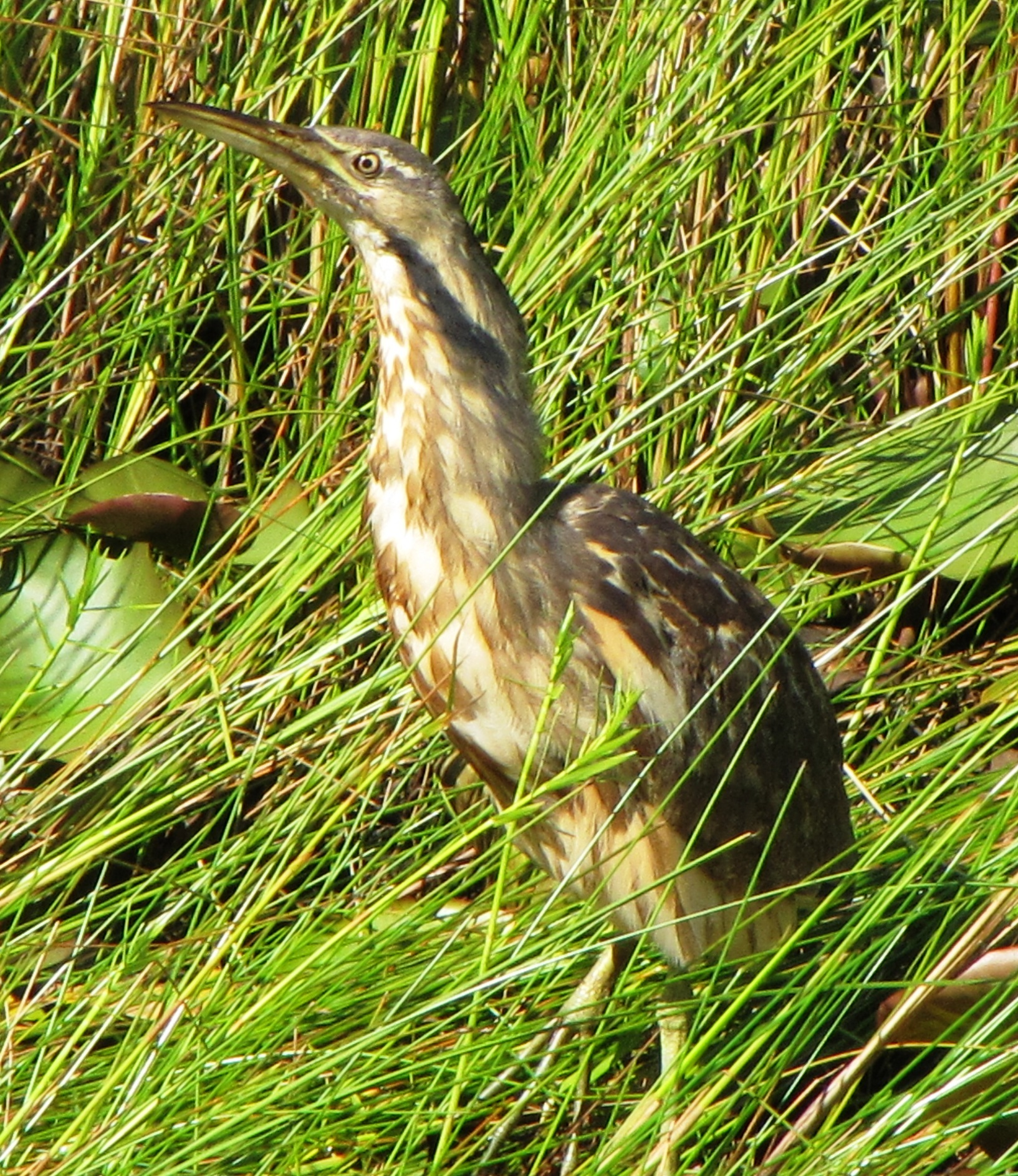 American Bittern Botaurus lentiginosus at Seney National Wildlife Refuge, Michigan.